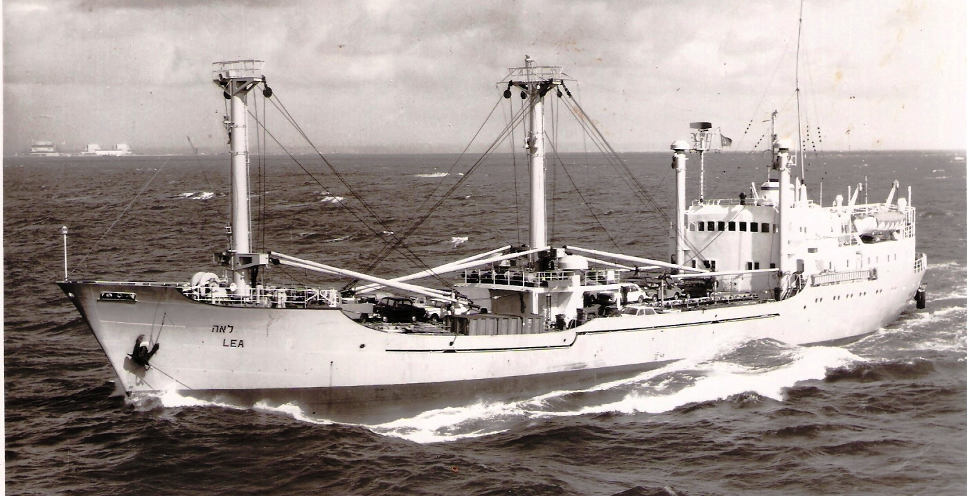 Israel Defense Forces